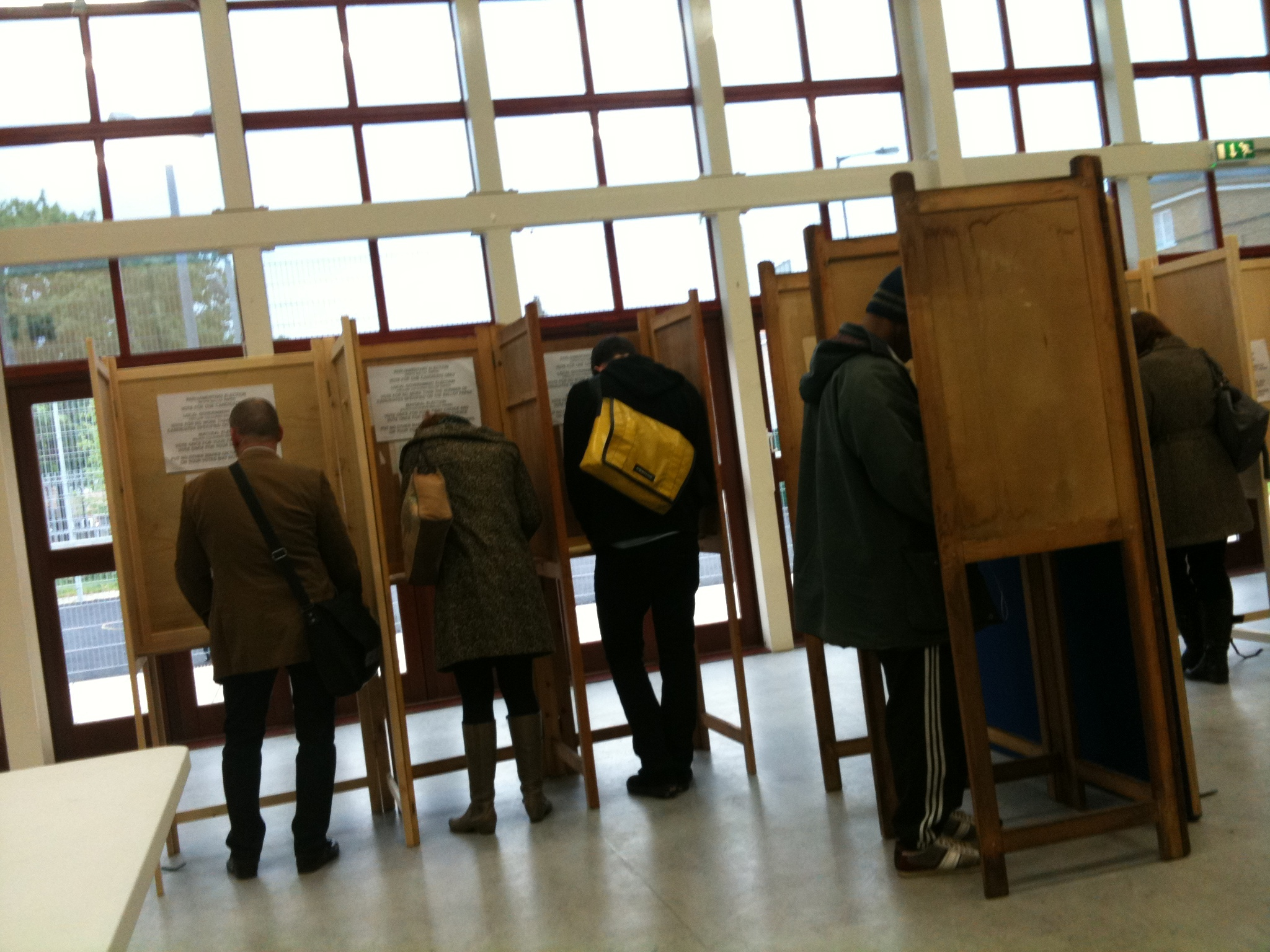 UK general election 2010